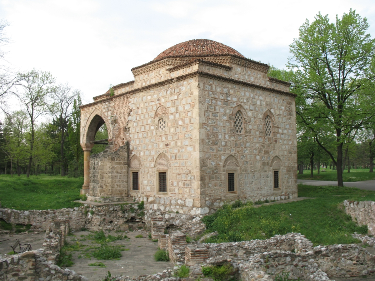 Former Bali-begova mosque, today works as a gallery, in Niš fortress, Serbia.